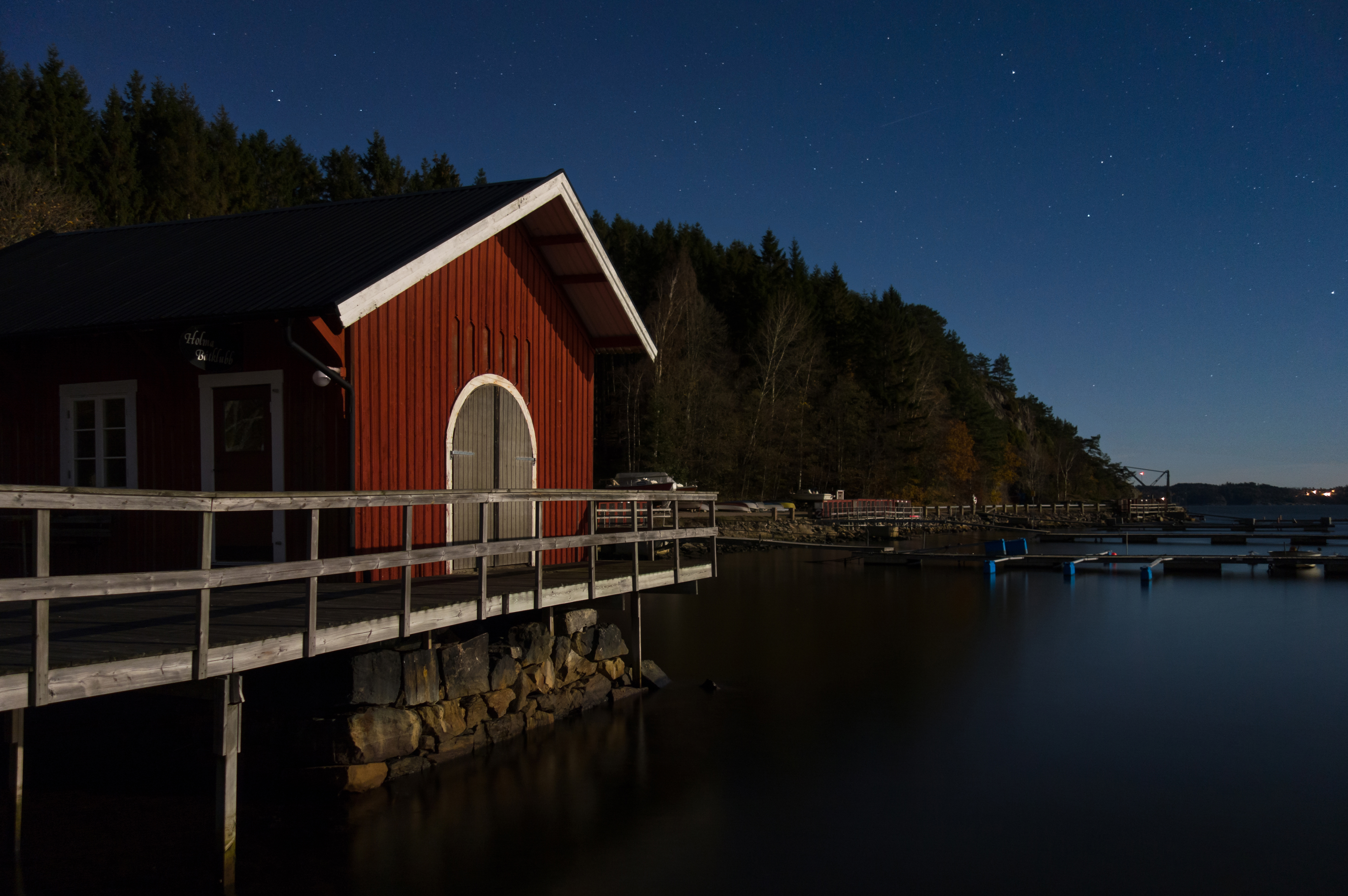 Holma Boat Club at Gullmarn fjord, Lysekil Municipality, Sweden. This part of the fjord consists mostly of nature reserves, so there are no street lights and very few houses in the area. The scene was only lit by the moon, at the time approaching full at 97.2%. The shot was made in a north-easterly direction, so the brighter sky on the right side is not the setting sun but the E6 highway, the Gothenburg - Oslo stretch. To reduce noise, most of the photo was done by merging three exposures using this technique. This noise reduction can't be use on the sky since the stars move (relatively speaking), so it was only done to the non-sky part of the photo.